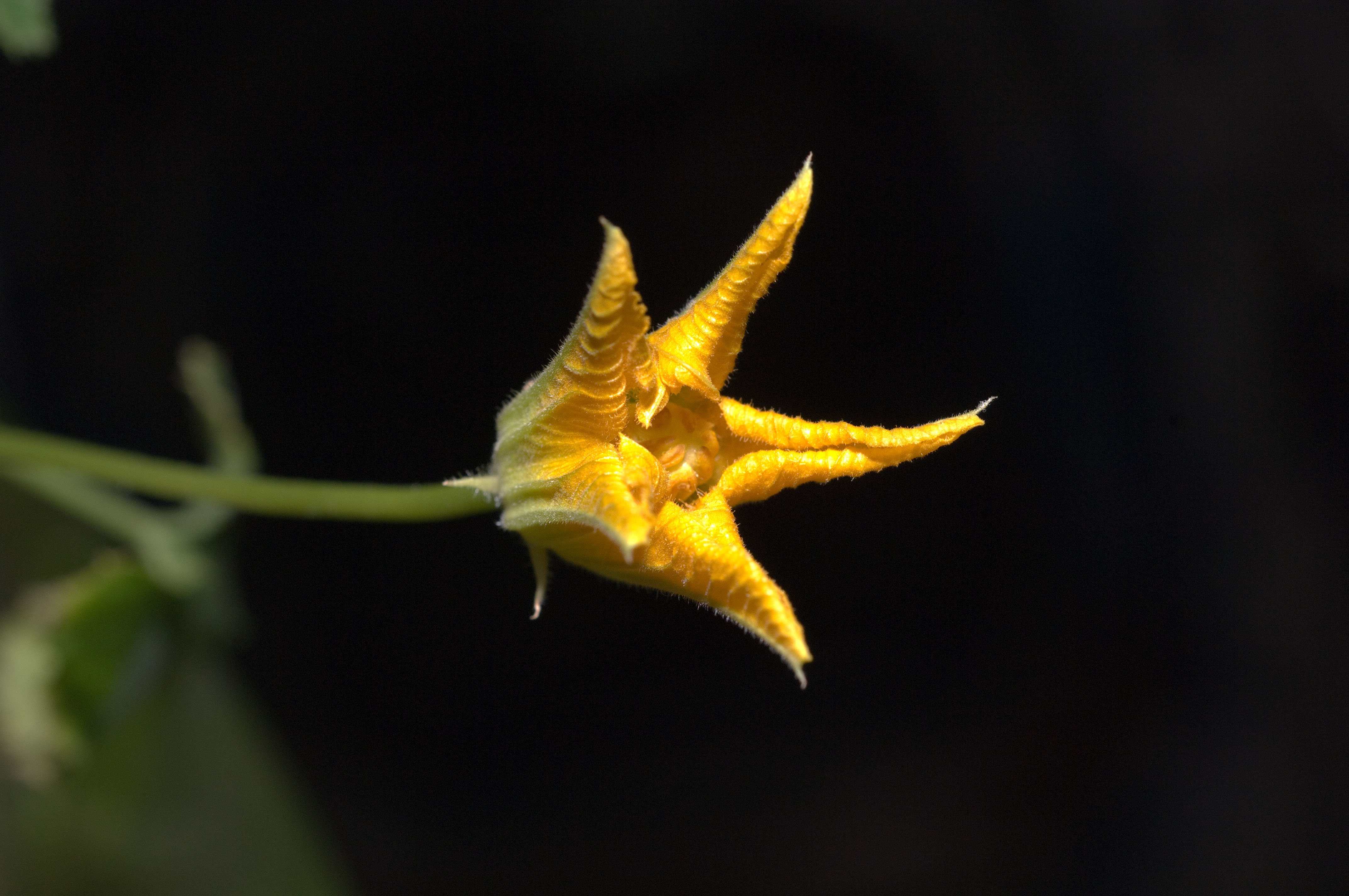 A zucchini plant is featured in this image photographed by an Expedition 30 crew member on the International Space Station.